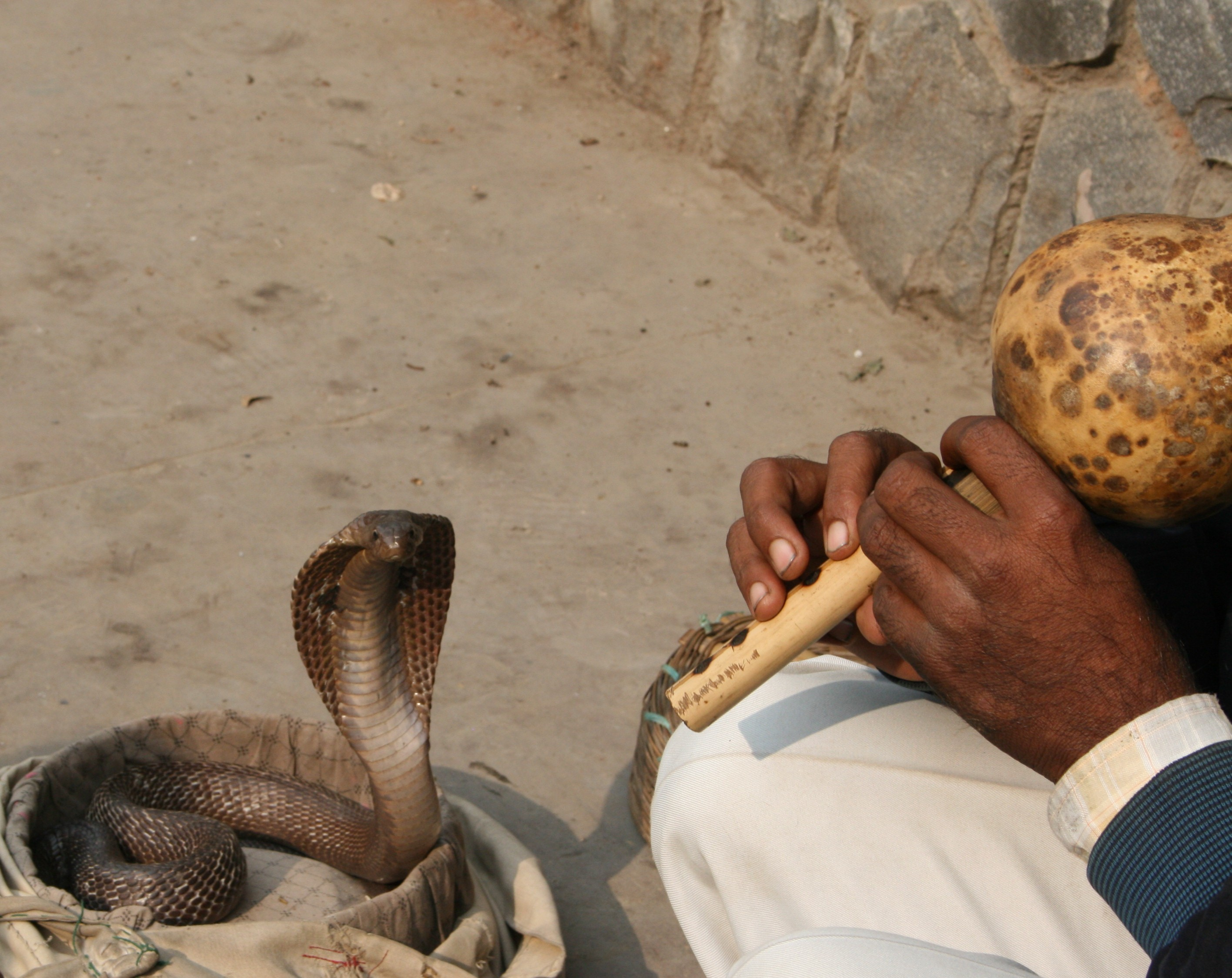 Snake charmer in Delhi, India